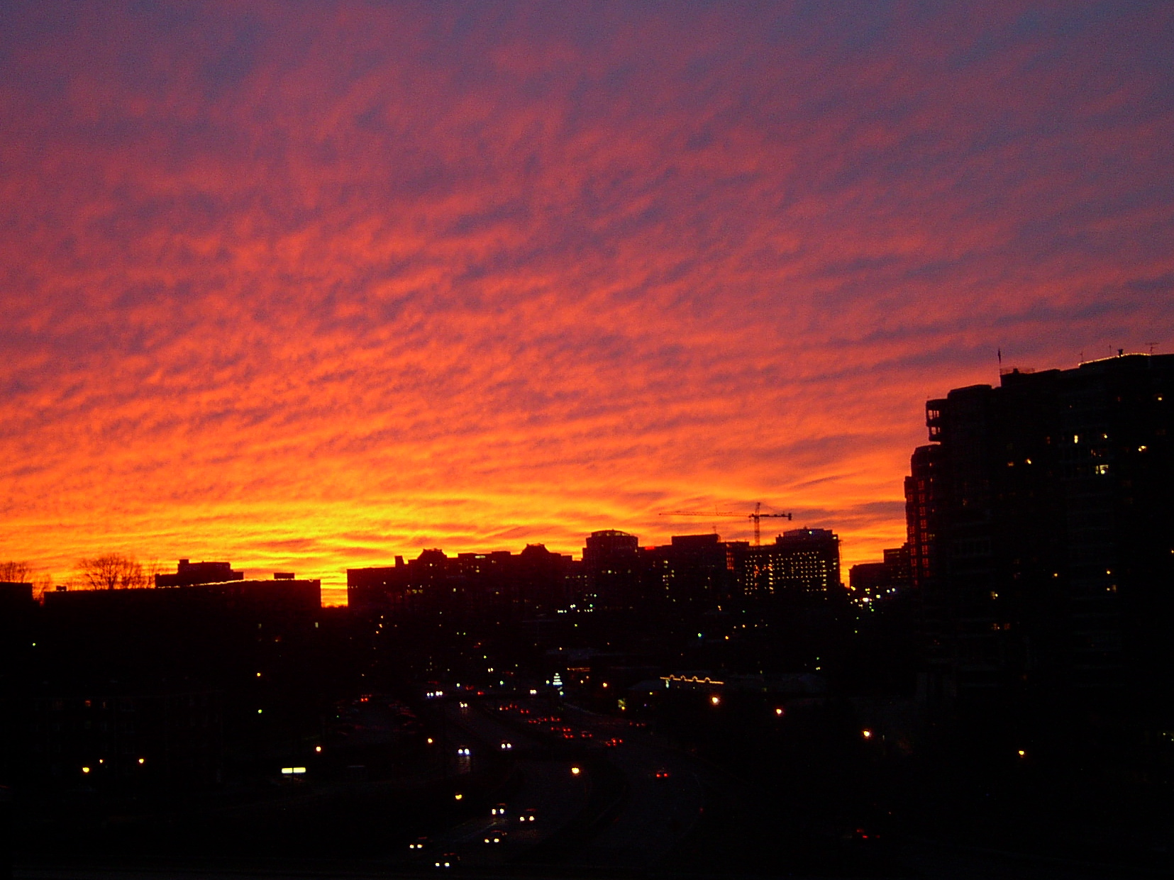 Sunset from a building in Rosslyn, Virginia, USA taken autumn 2004. Highway 50 is in the middle of the picture. Uploaded by photographer.